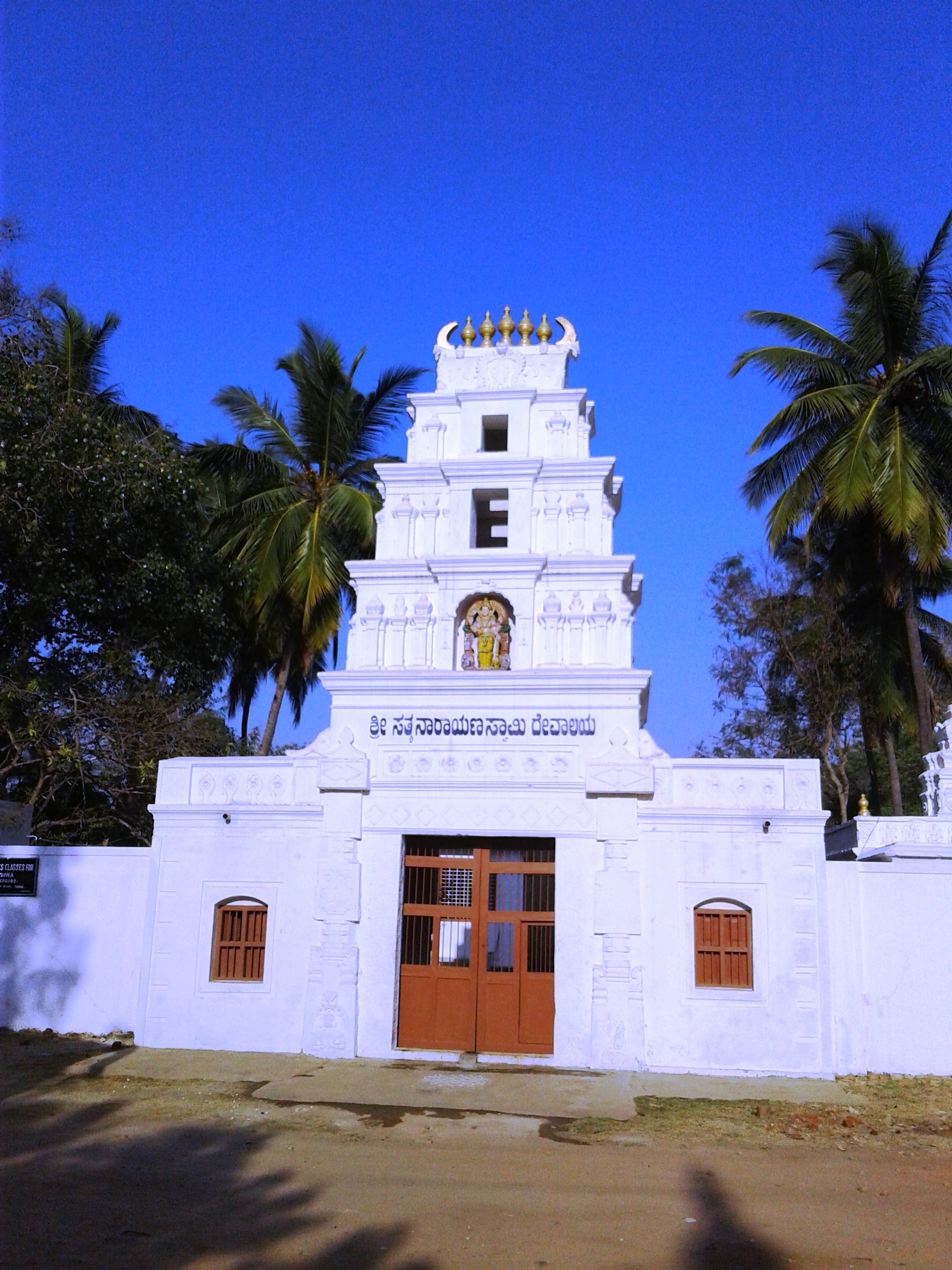 Nanjangud town, Mysore district, Karnataka state, India.